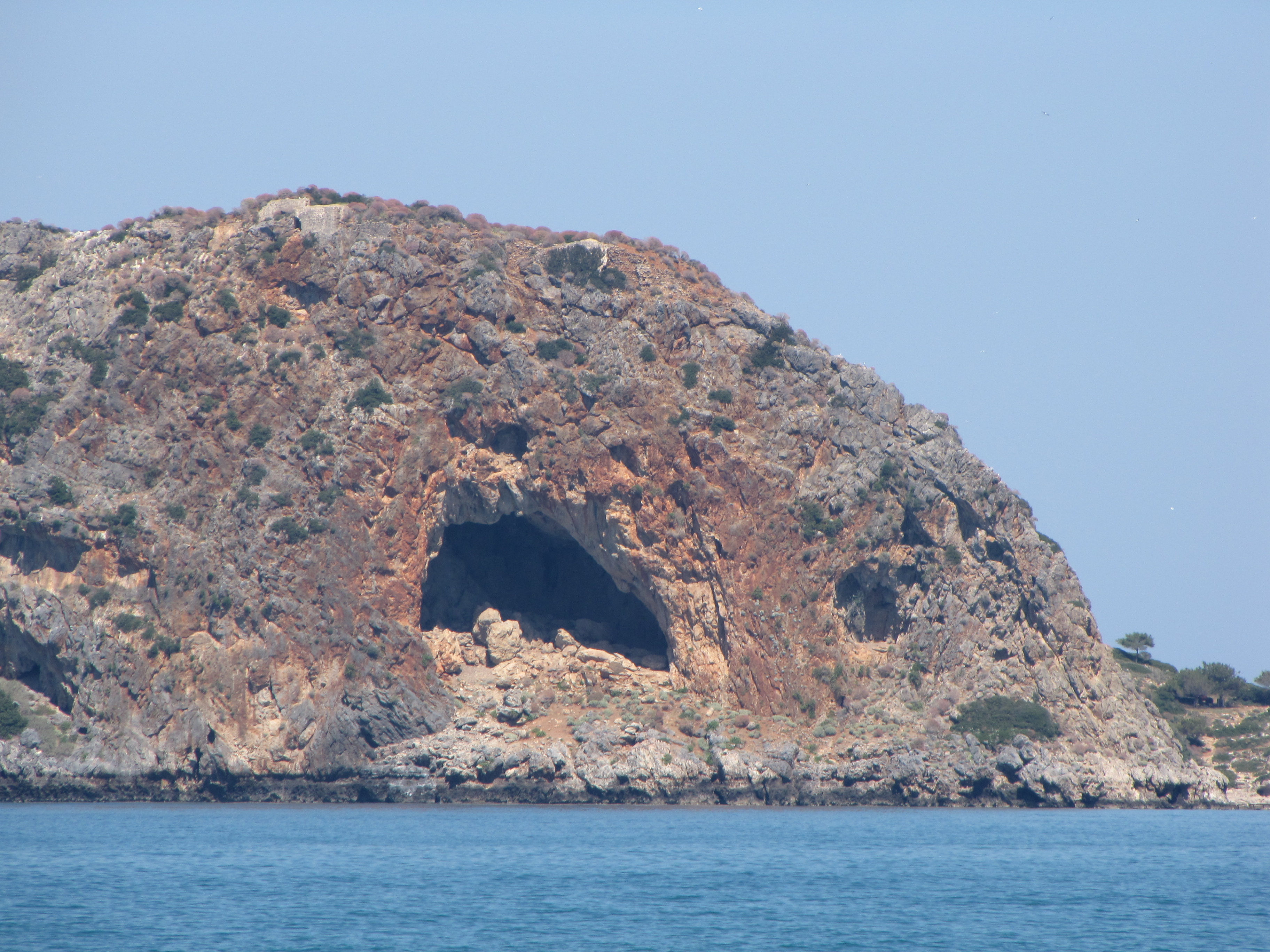 Cave on Theodorou Island/Agii Theodori Island, Chania Prefekture, Crete, Greece.